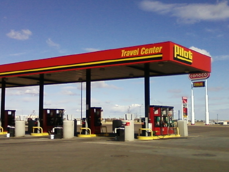 Pilot Travel Center at I-15 exit 277 south of Great Falls, Montana.